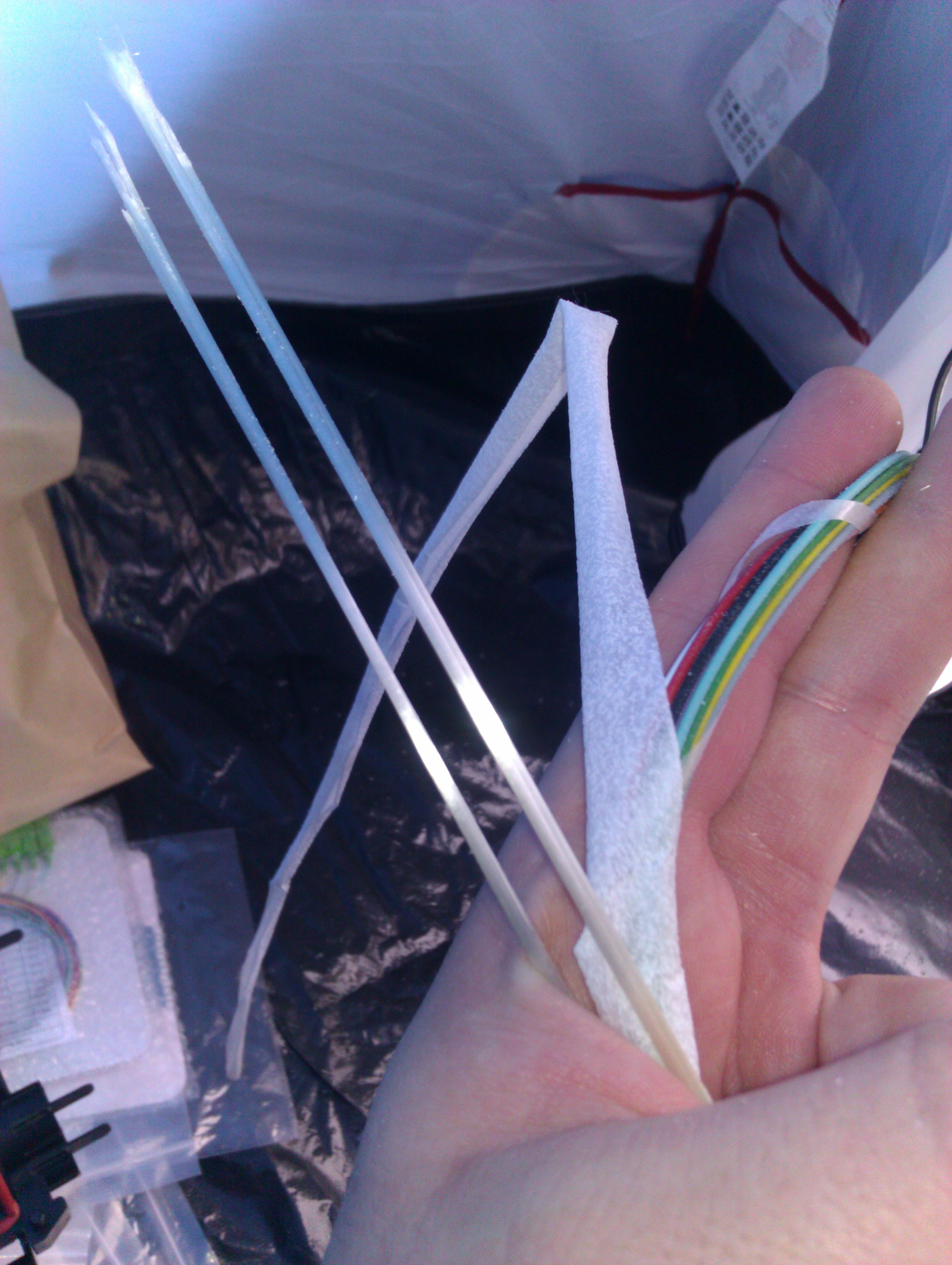 Inside of a type 144 FO fiber optic cable with the two lateral reinforcements, the ribbon and twelve smaller fiber optic sheath.